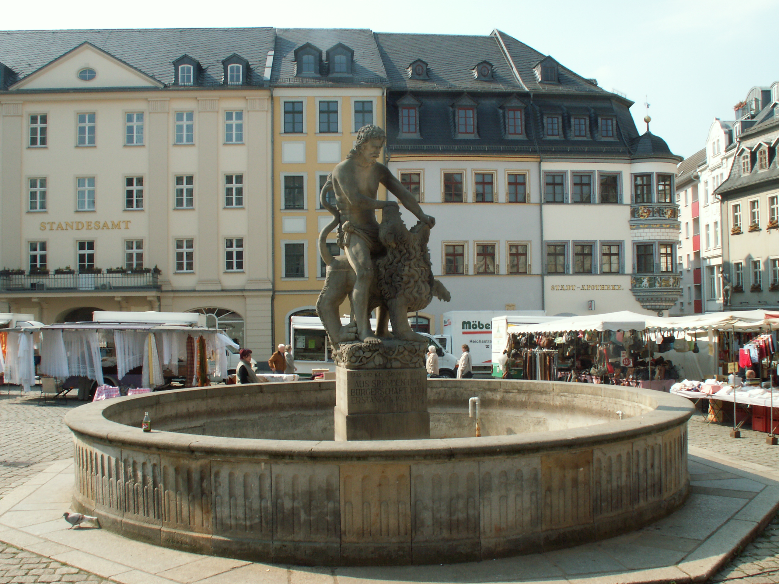 Gera Marktplatz, Gera Marktplatz, Germany.